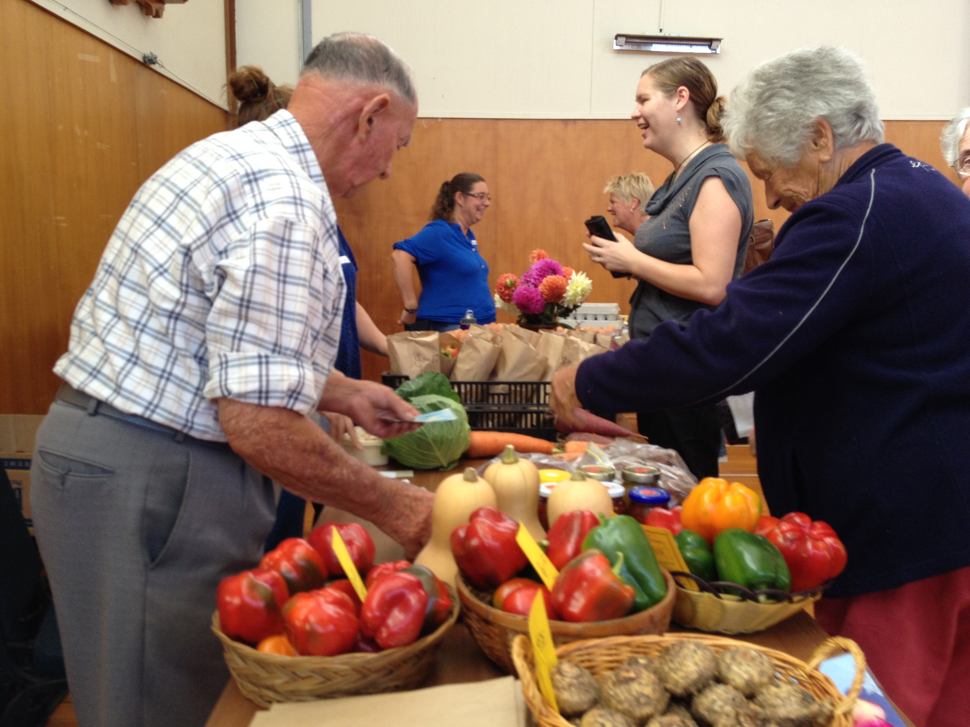 Maungaturoto Markets are held every 1st Friday of the Month from 3.30 - 6.30pm